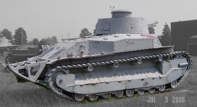 Type 89 "Chi Ro" on display at the US Army Ordnance Museum in Aberdeen. The picture taken July 3, 2006.